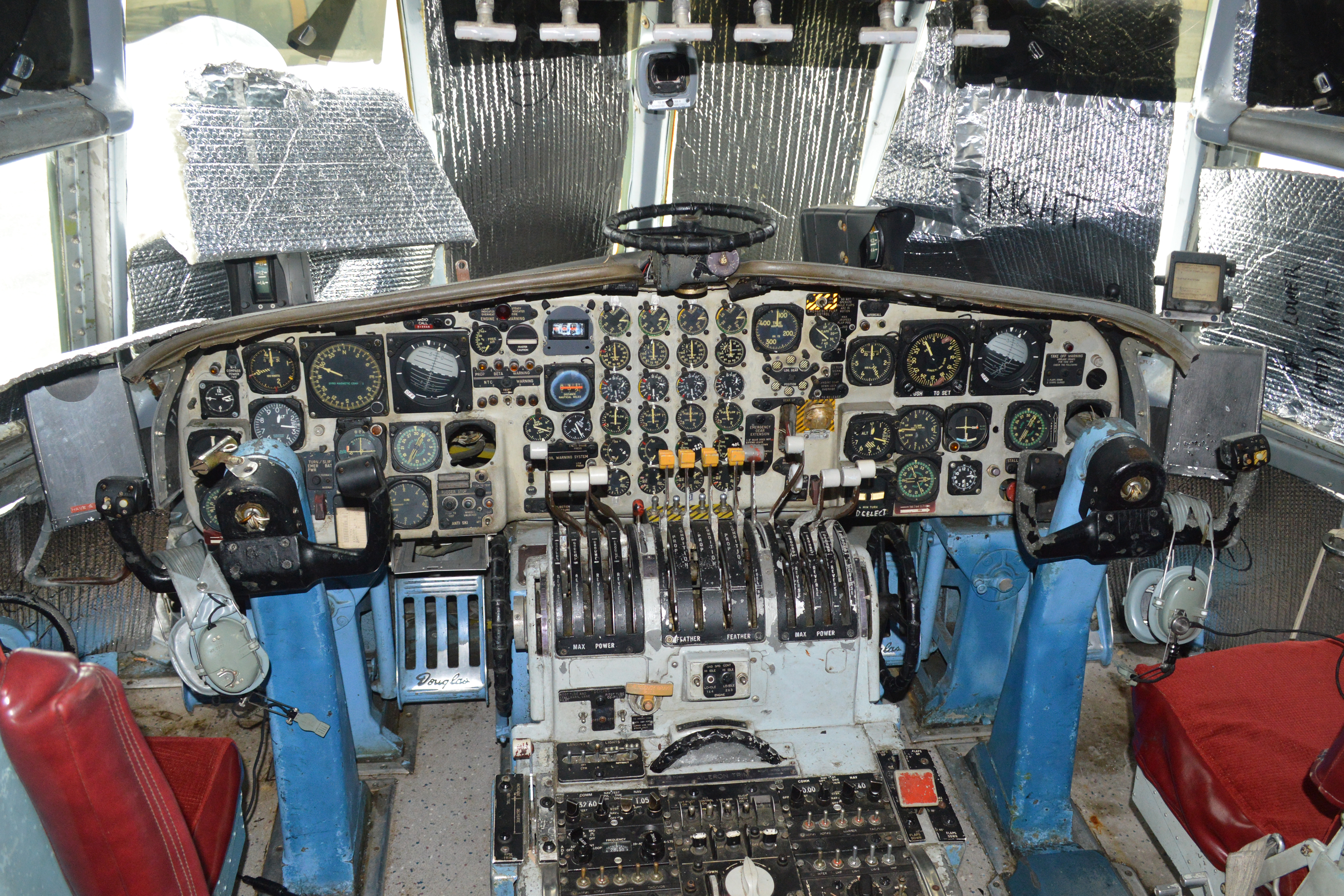 Cockpit of a Douglas C-133A Cargomaster, US military serial 56-1999 and c/n 45164. On display at the Travis AFB Heritage Center, CA. 5th March 2016